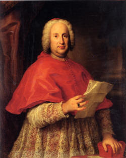 Cardinal Neri Corsini (1685-1770)